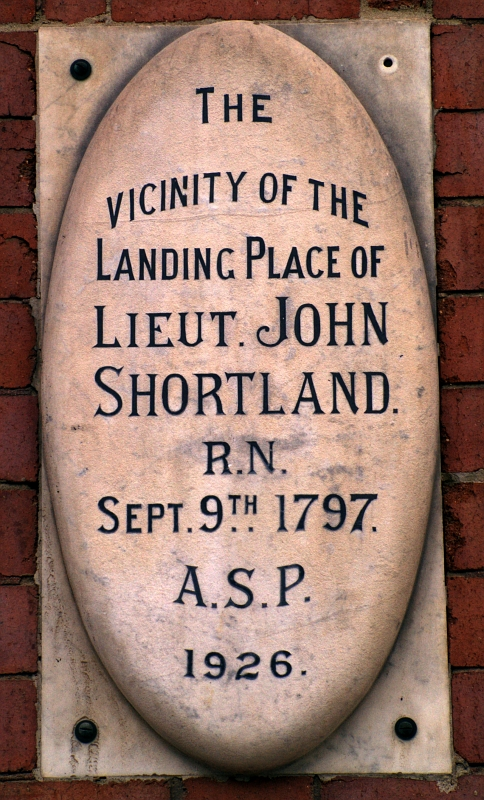 Commemorative plaque of believed landing spot of Lt. John Shortland in Newcastle, formerly known as Coal River.